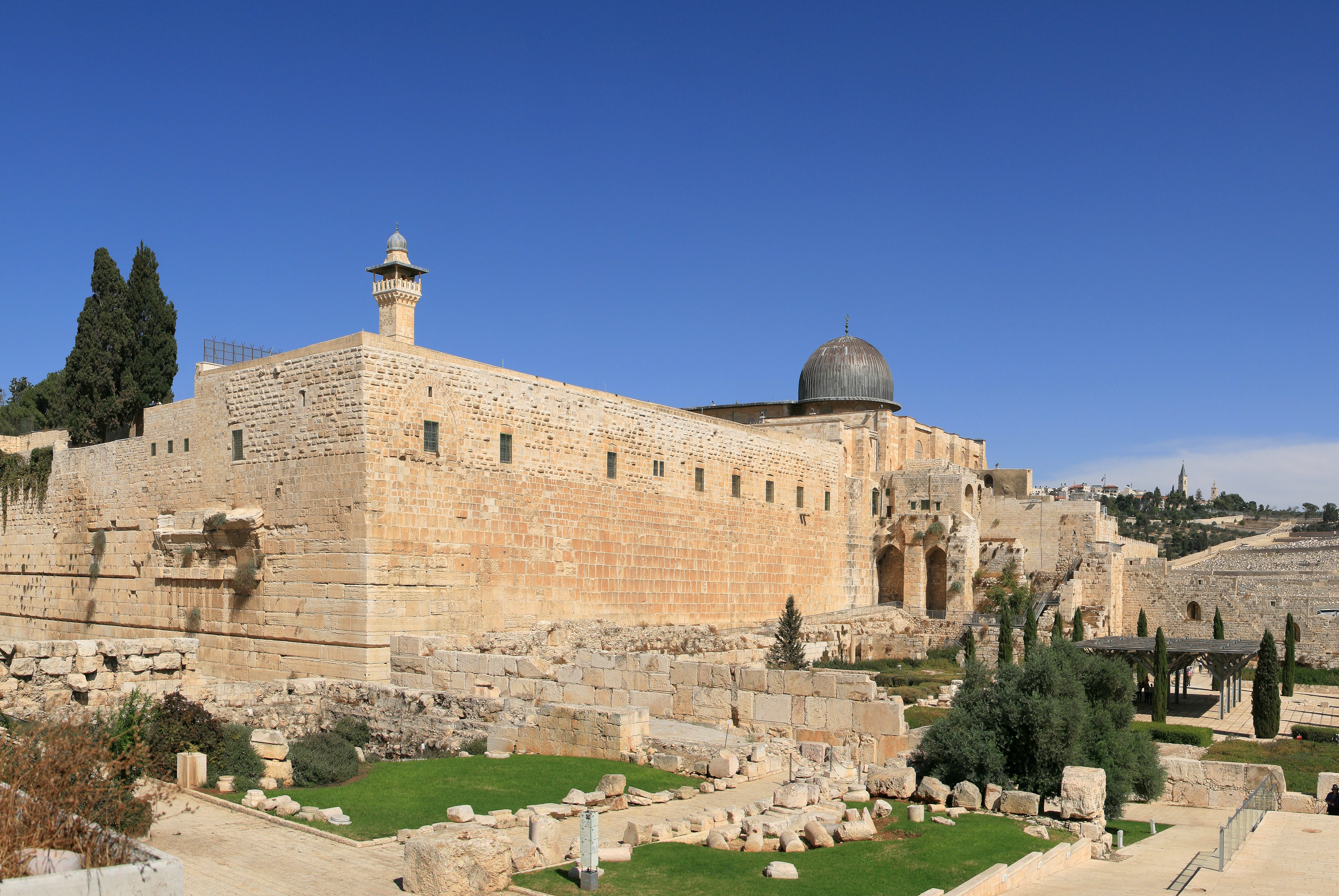 South western corner of the Temple Mount, Jerusalem, Israel